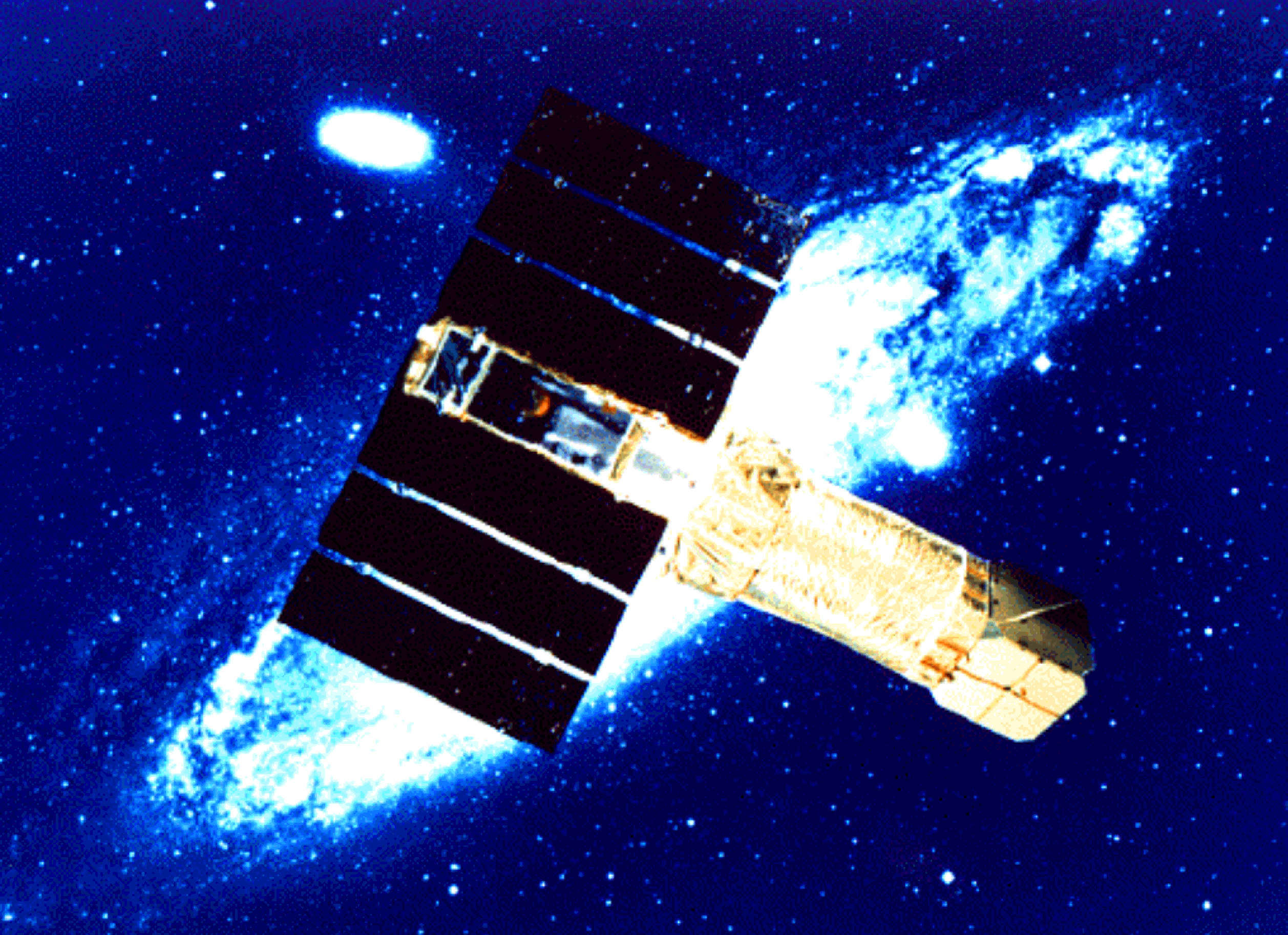 ASCA, Japan spacecraft, also known as Astro-D.